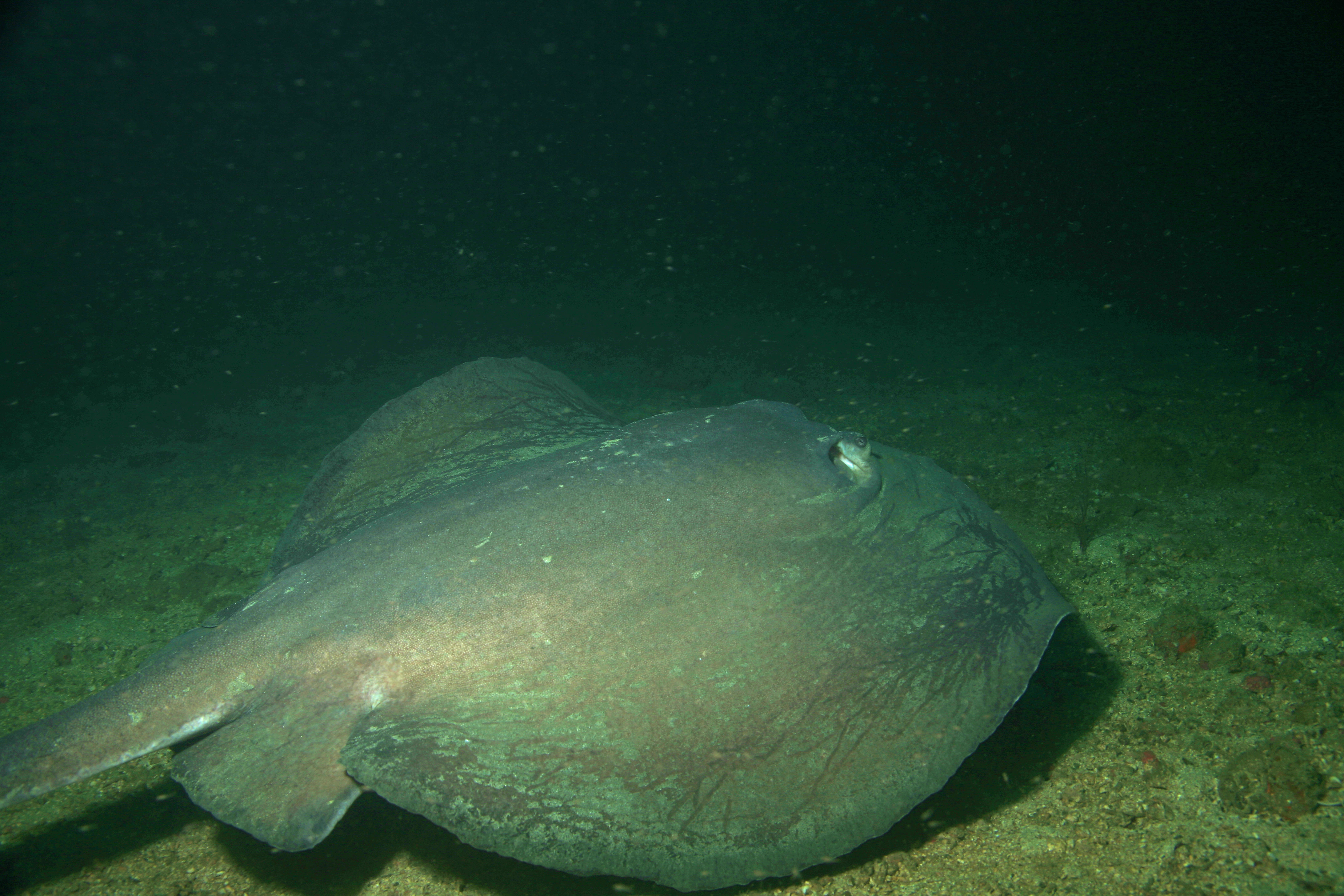 A Whiptail (or Diamond) Stingray (Dasyatis dipterura), coming in for a landing on the sandy bottom near the sea mountain at Pirámides (Pyramids) dive site in the Pacific waters of Panama.